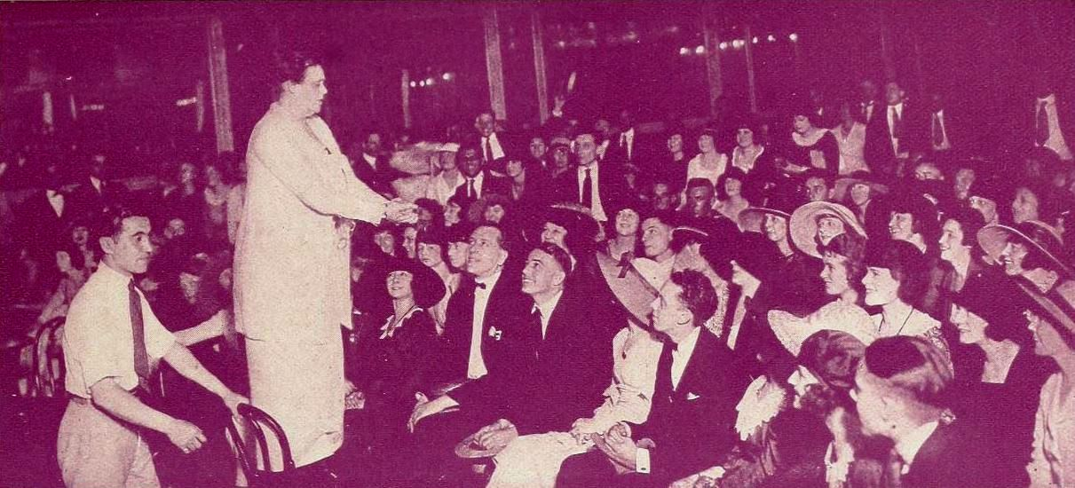 Marie Dressler speaking to chorus girl strikers in 1919 at the Amsterdam Opera House in New York. On page 47 of the October 1919 Photoplay.